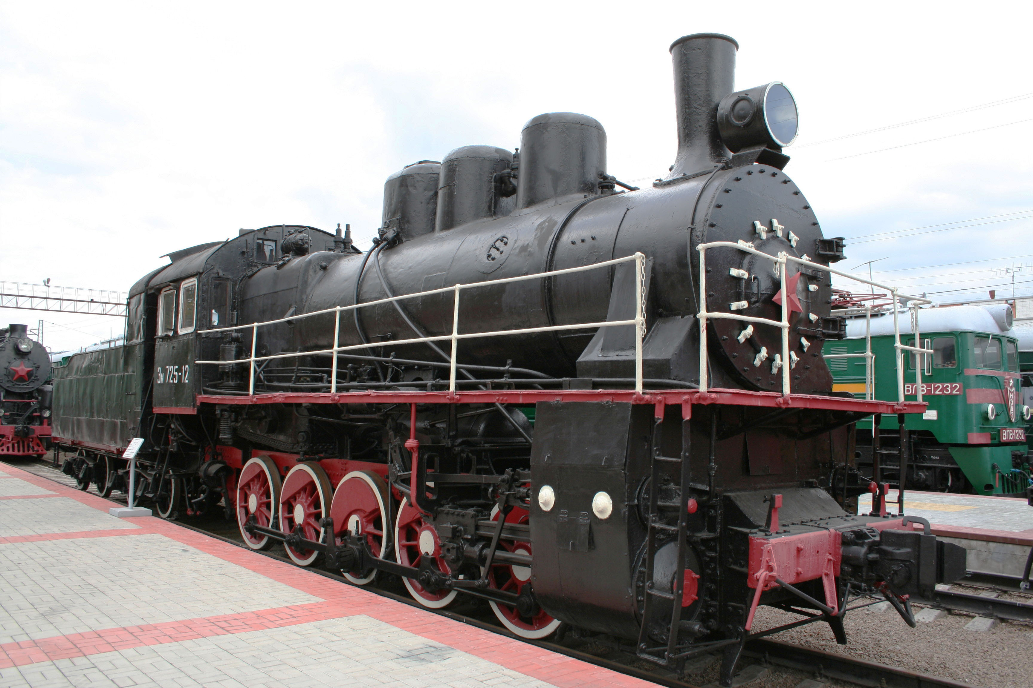 Steam locomotive Эм-725-12 in Novosibirsk Railway Museum